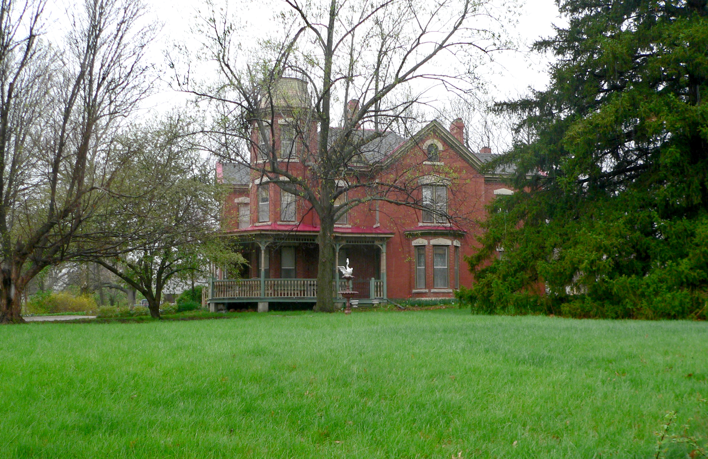 John Holman house, located on west side of Nemaha Street between 9th and 10th Streets in Humboldt, Nebraska; seen from the east-southeast.